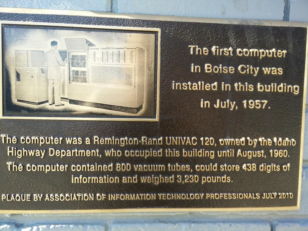 The first computer in Boise, Idaho, a Univac 120, was installed in July 1957.